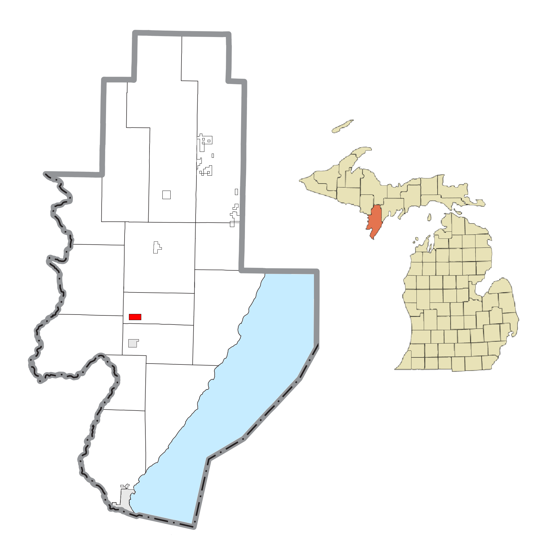 Daggett, MI